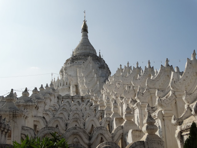 Mingun (Mya Thein Tan Pagoda)